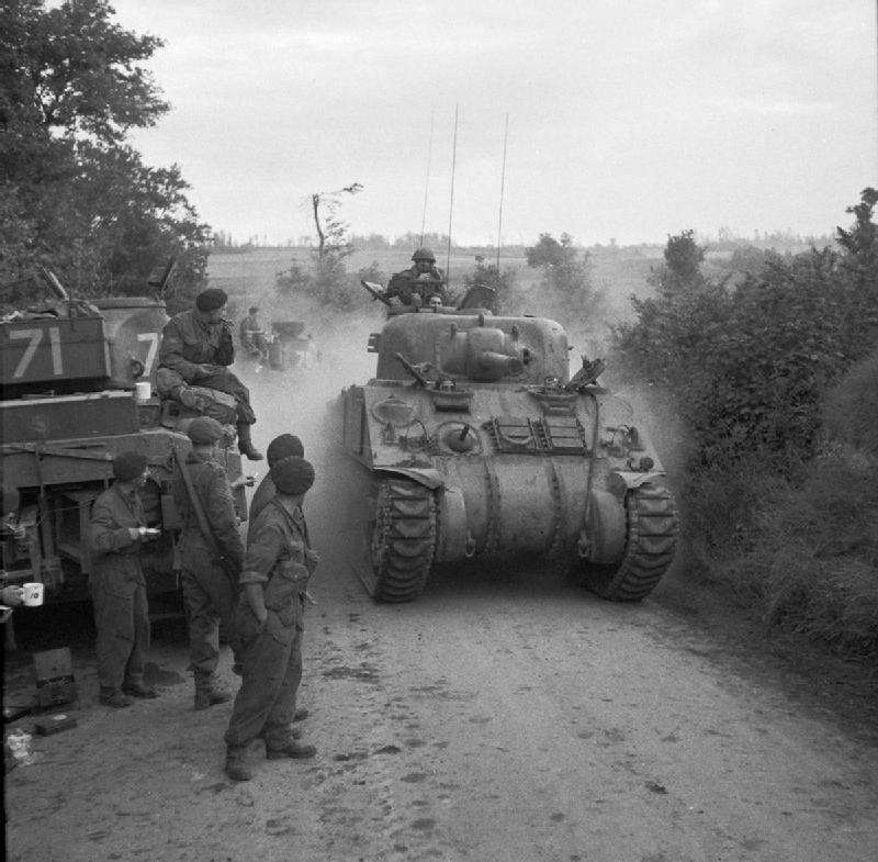 British Sherman tanks, moving forward near Lebisey Wood for the assault on Caen, pass another tank and crew waiting for the order to advance.